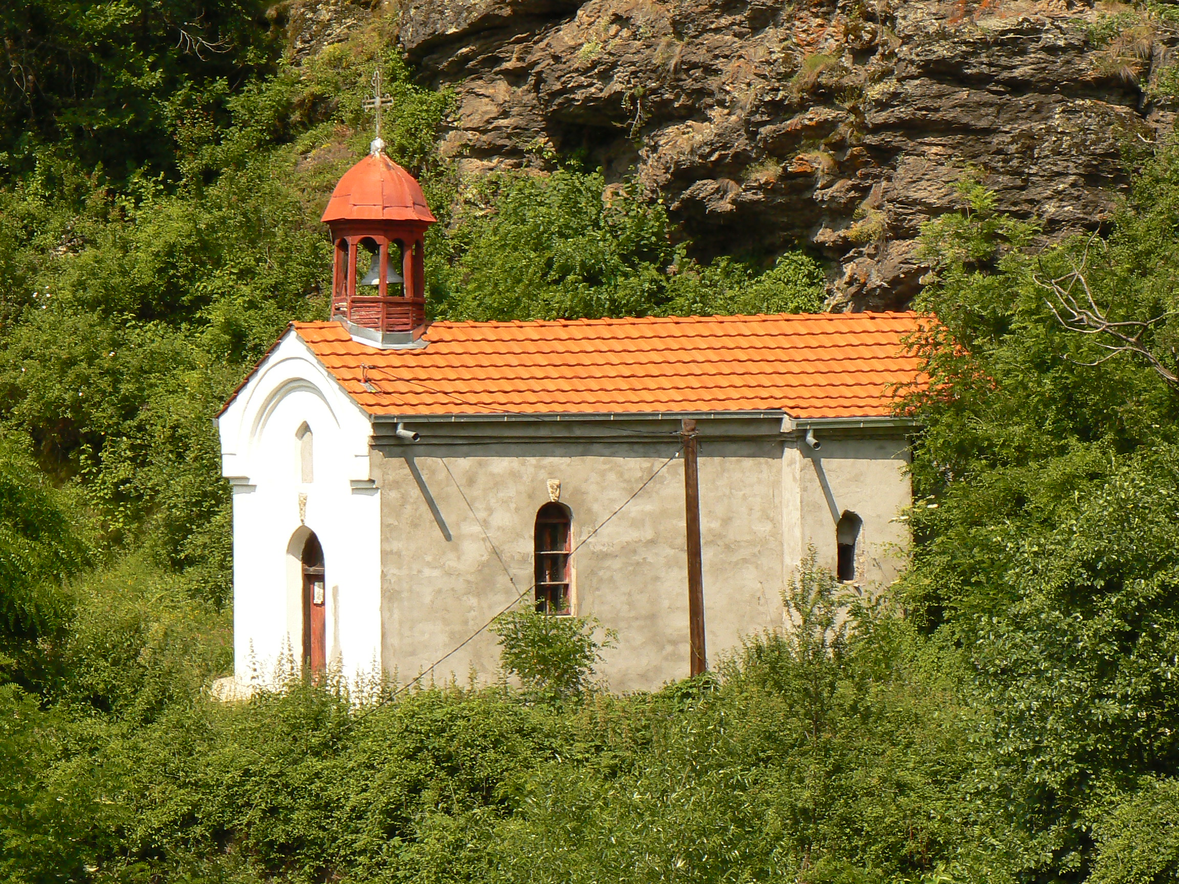 The church in village Donja Lisina, Serbia